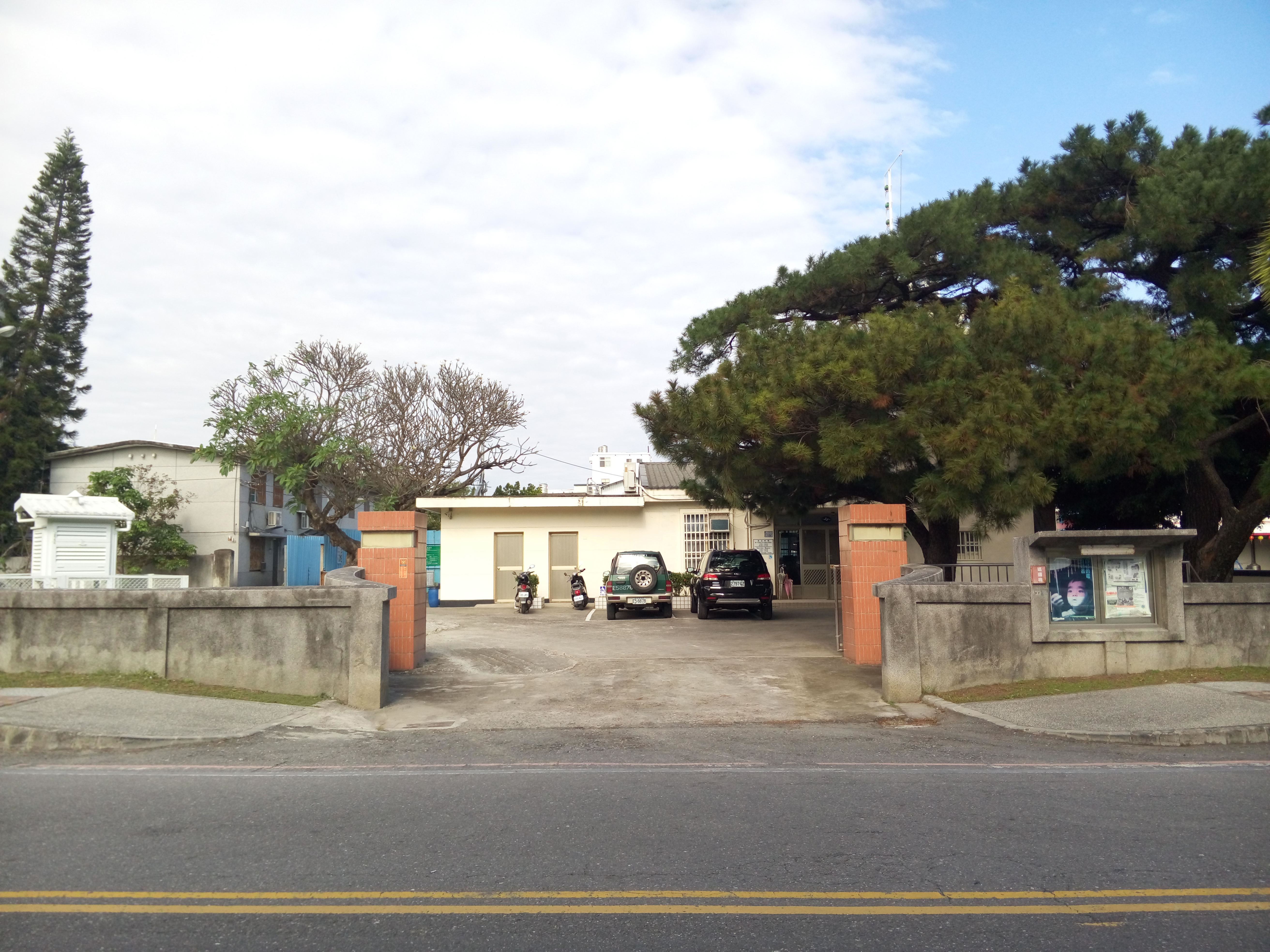 Taitung Weather Station